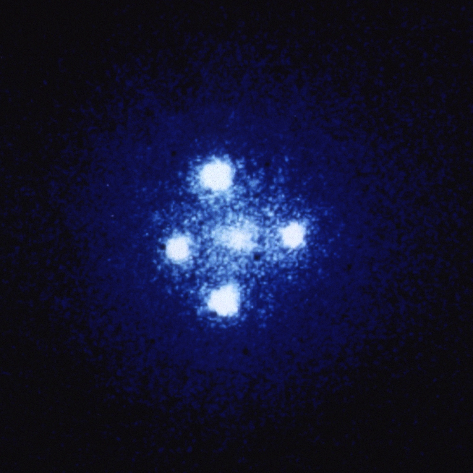 The European Space Agency's Faint Object Camera on board NASA's Hubble Space Telescope has provided astronomers with the most detailed image ever taken of the gravitational lens G2237 + 0305 — sometimes referred to as the Einstein Cross. The photograph shows four images of a very distant quasar which has been multiple-imaged by a relatively nearby galaxy acting as a gravitational lens. The angular separation between the upper and lower images is 1.6 arcseconds.